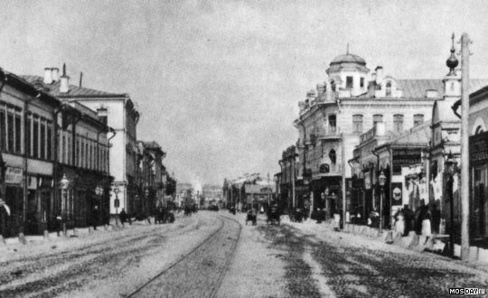 a historical photo of the Arbat Street in Moscow